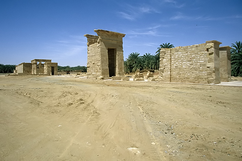 Temple of Hibis, seen from south east, el-Kharga depression, Egypt